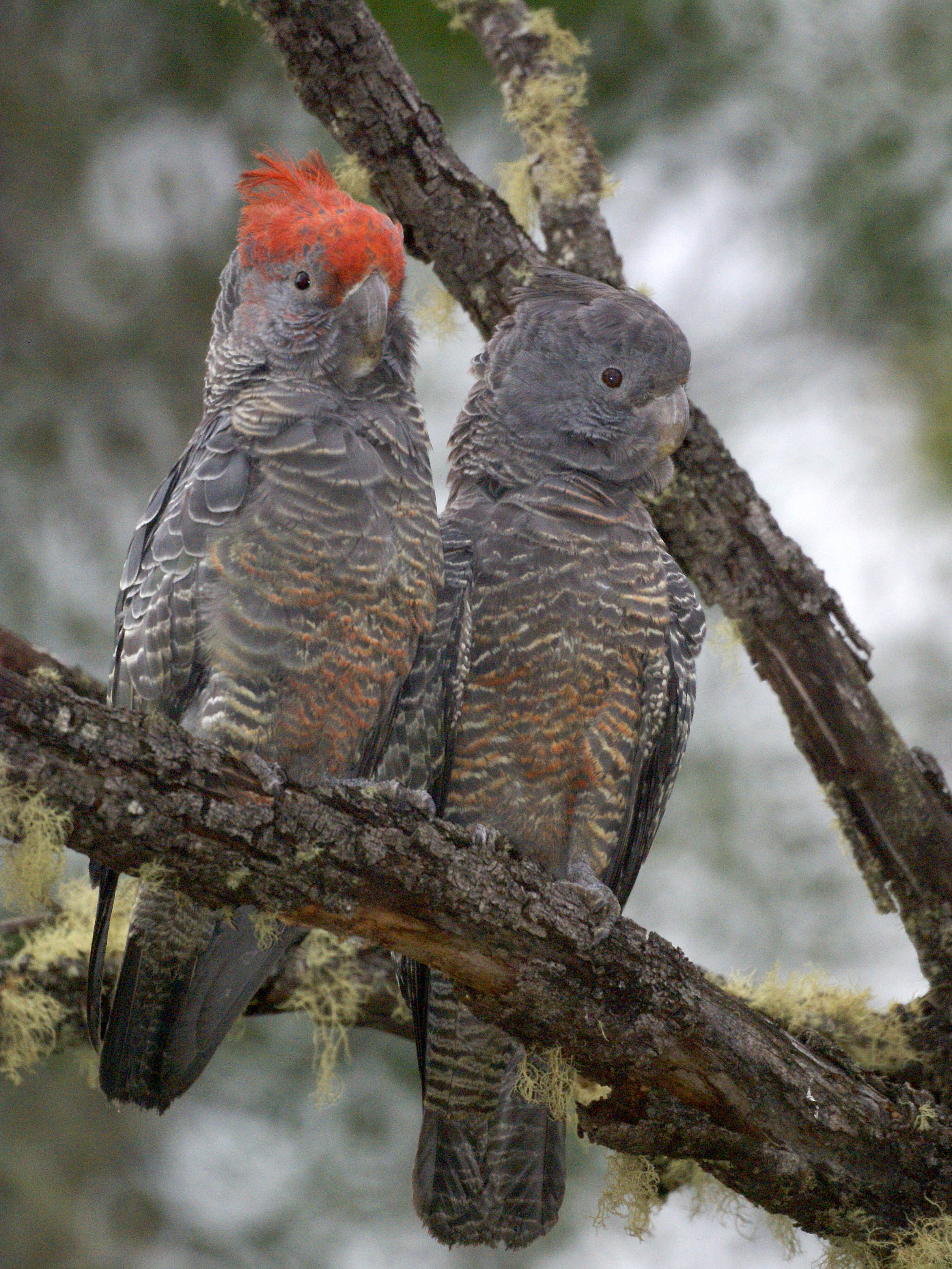 A pair of Gang-gang Cockatoo at New Buildings, NSW, Australia. The male is on the left with red feathers on its head and the female on the right.